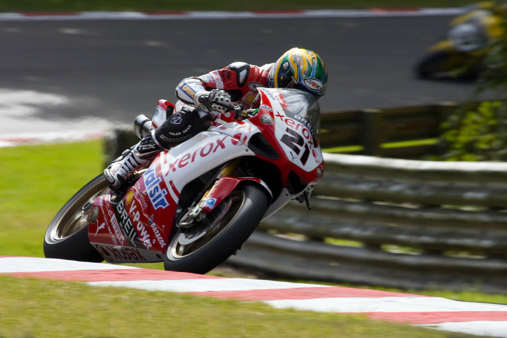 Brands Hatch (West Kingsdown, Kent, England), Brands Hatch Circuit, August 1, 2008. 2008 Superbike World Championship, Round 10, Practice Day: #21 Troy Bayliss' Xerox Ducati 1098 F08 exiting Stirlings.